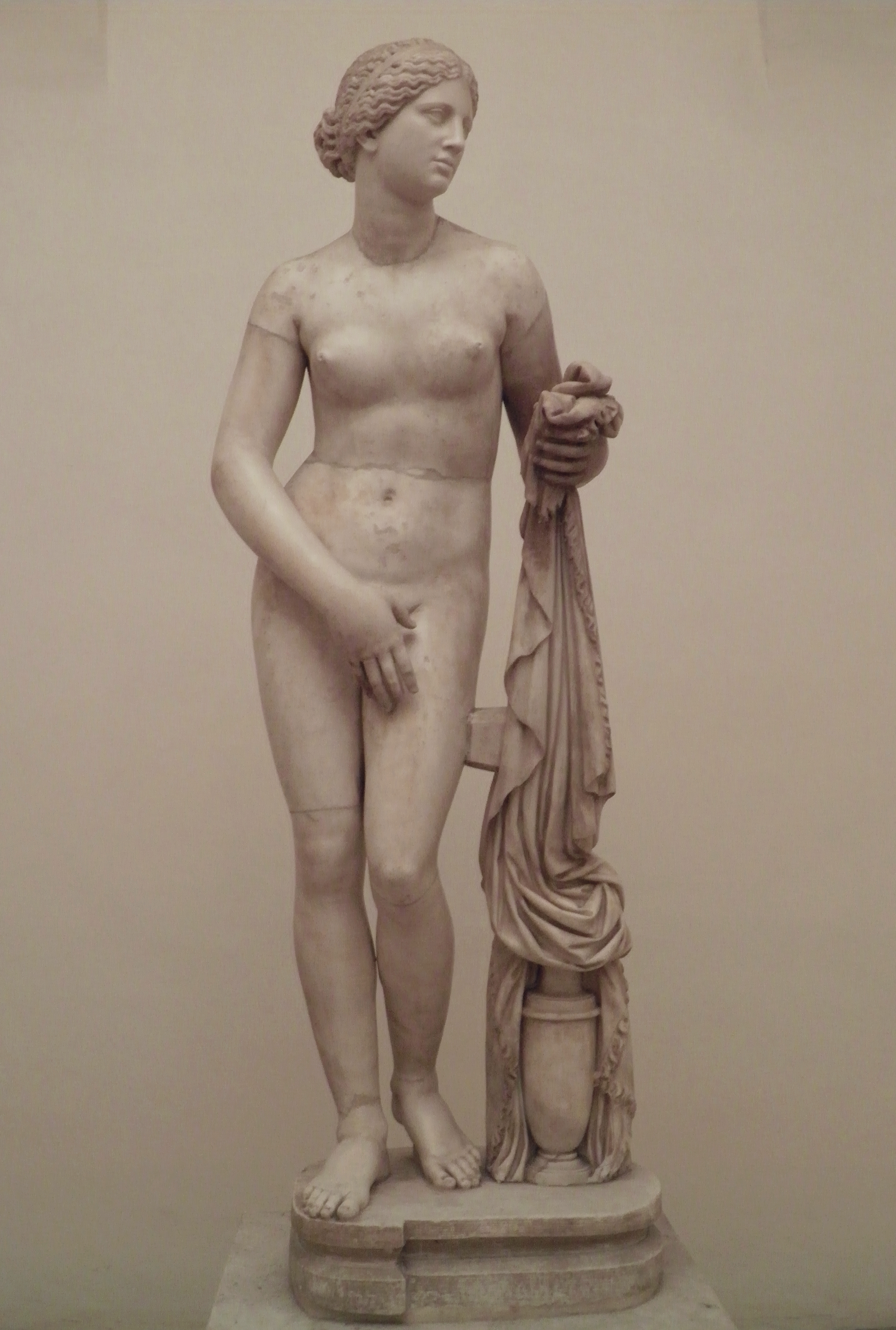 The Ludovisi Cnidian Aphrodite, Roman marble copy (torso and thighs) with restored head, arms, legs and drapery support. The Aphrodite of Knidos was one of the most famous works of the ancient Greek sculptor Praxiteles of Athens (4th century BC). It and its copies are often referred to as the Venus Pudica ("modest Venus") type, on account of her covering her naked vagina with her right hand. Variants of the Venus Pudica (suggesting an action to cover the breasts) are the Venus de' Medici or the Capitoline Venus.